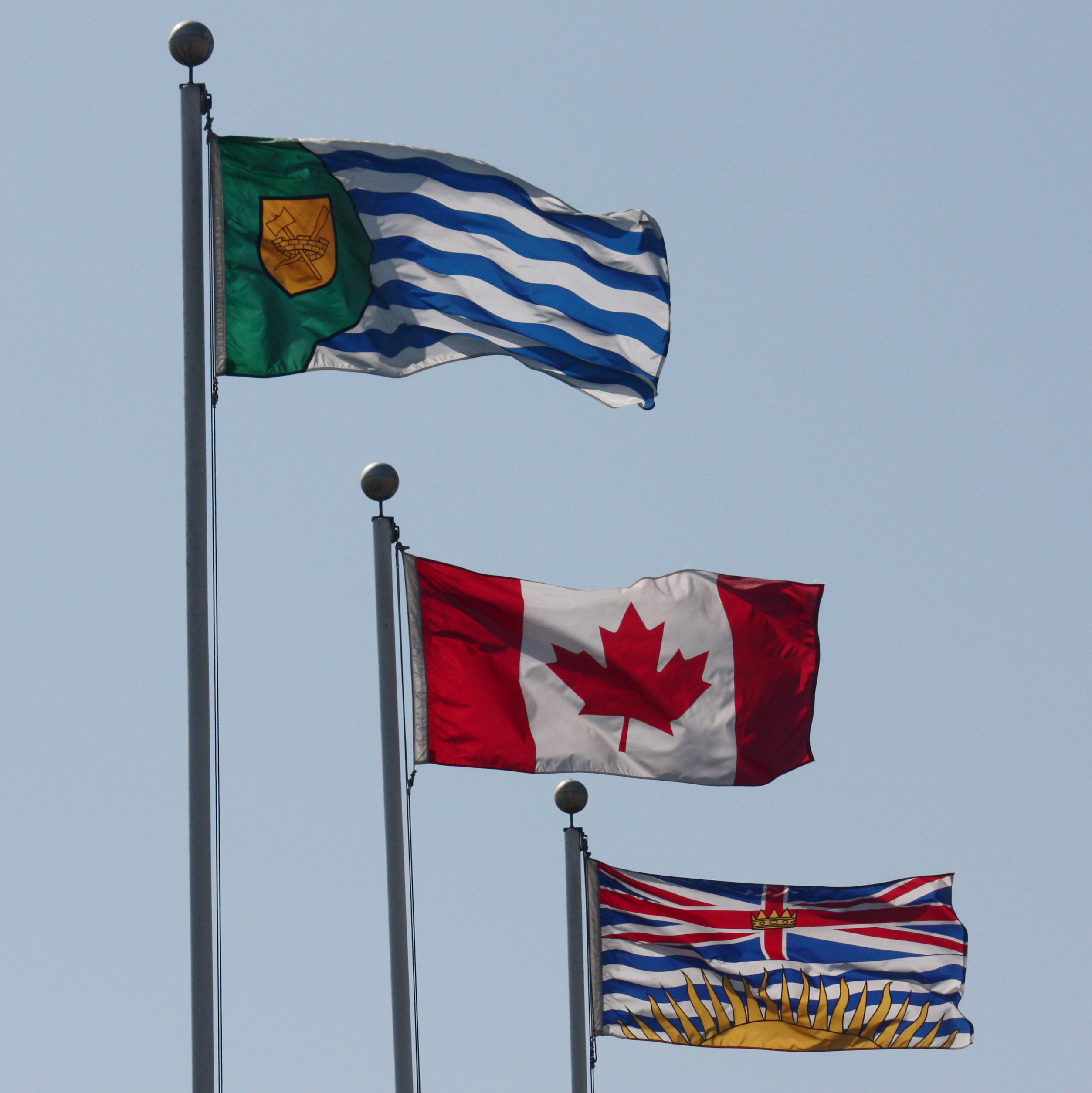 From left to right: the flags of Vancouver, Canada, and British Columbia, flying side-by-side in Vanier Park, near downtown Vancouver